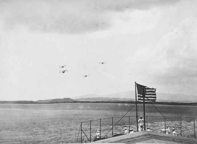 F5L Flying Boats, Atlantic Fleet Air Force - Arrival at Guantanamo from Panama